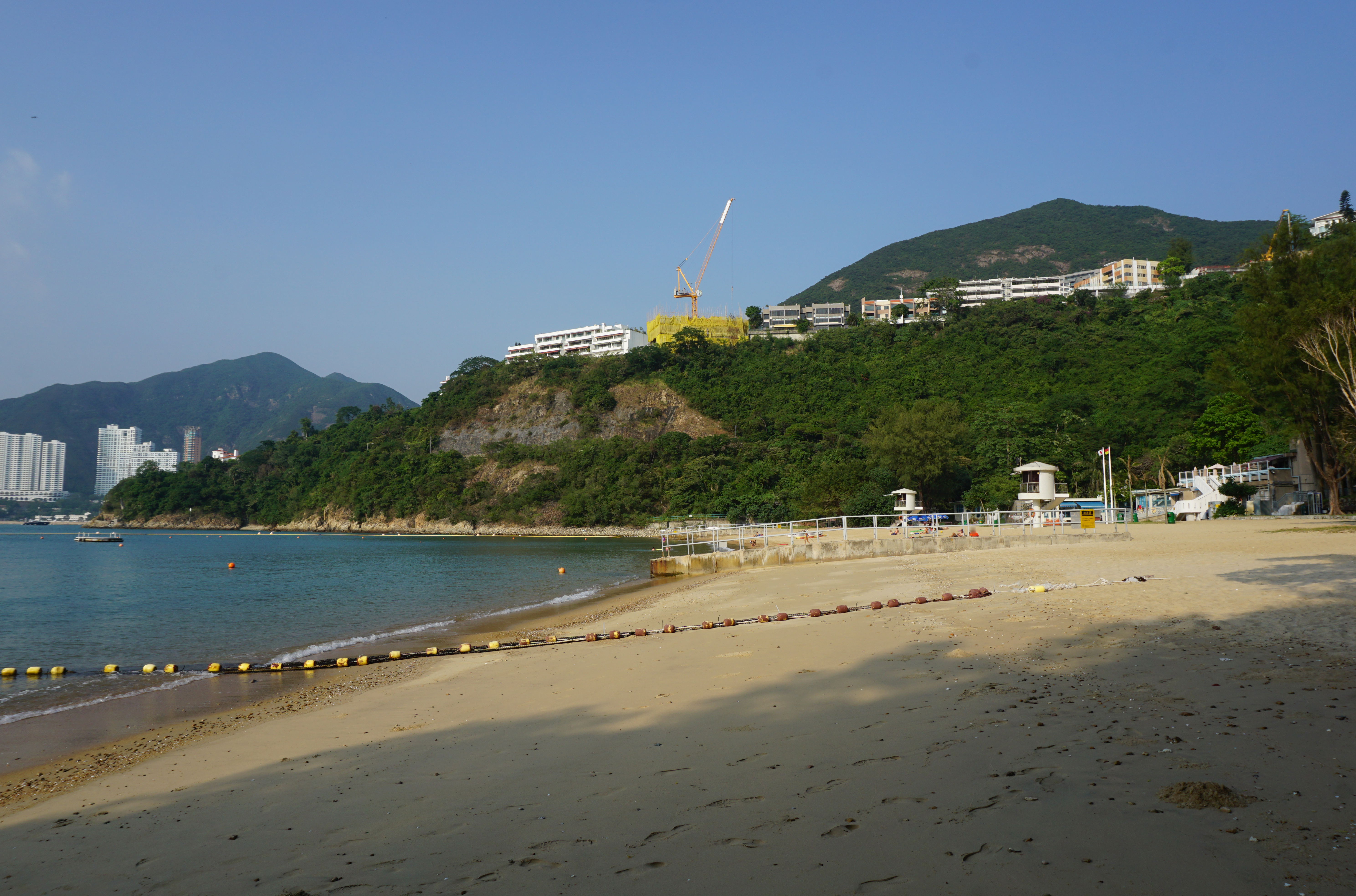 South Bay Beach in Chung Hom Kok, Hong kong.